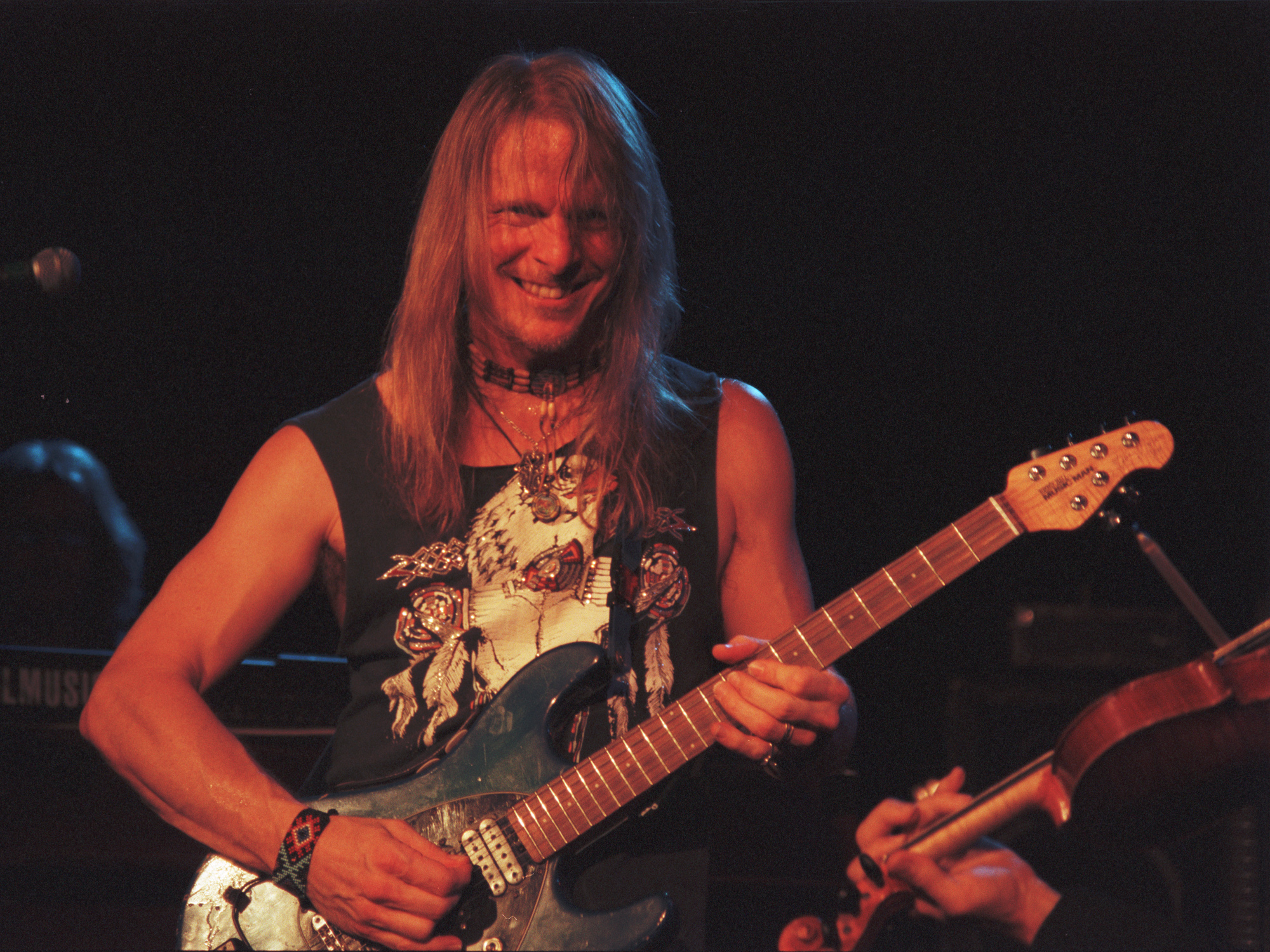 Steve Morse - Dixie Dregs Live Roxy Theater, Hollywood, CA. August 28, 1999 - Final show of California Screamin' tour.